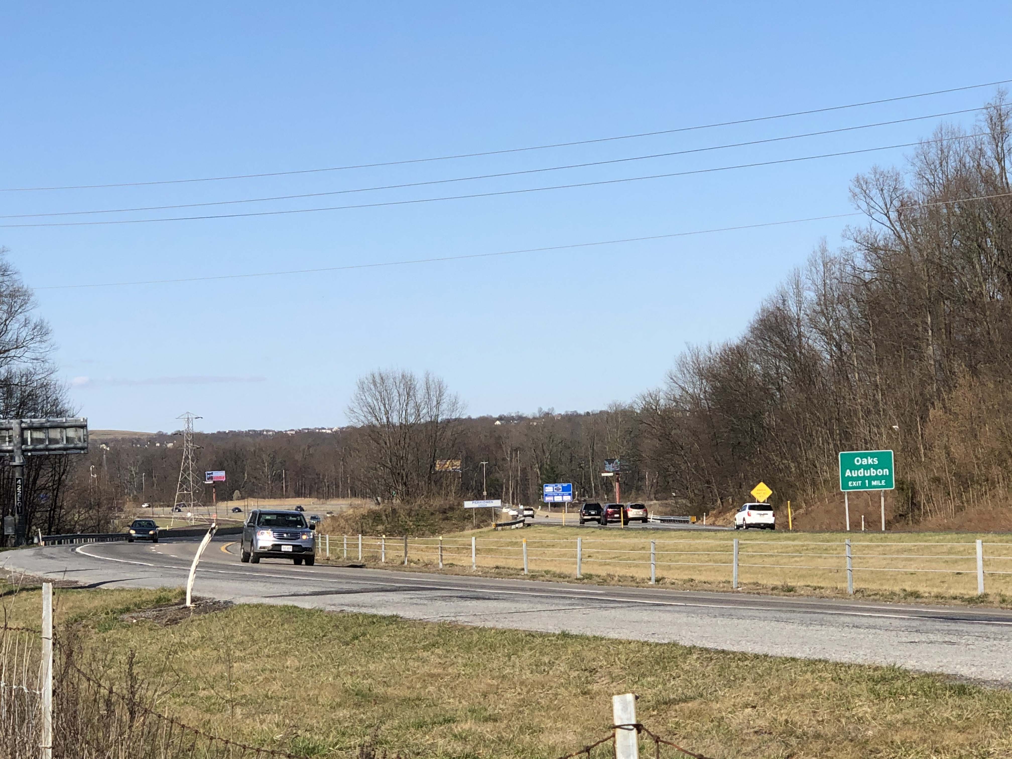 US 422 Oaks Audubon exit